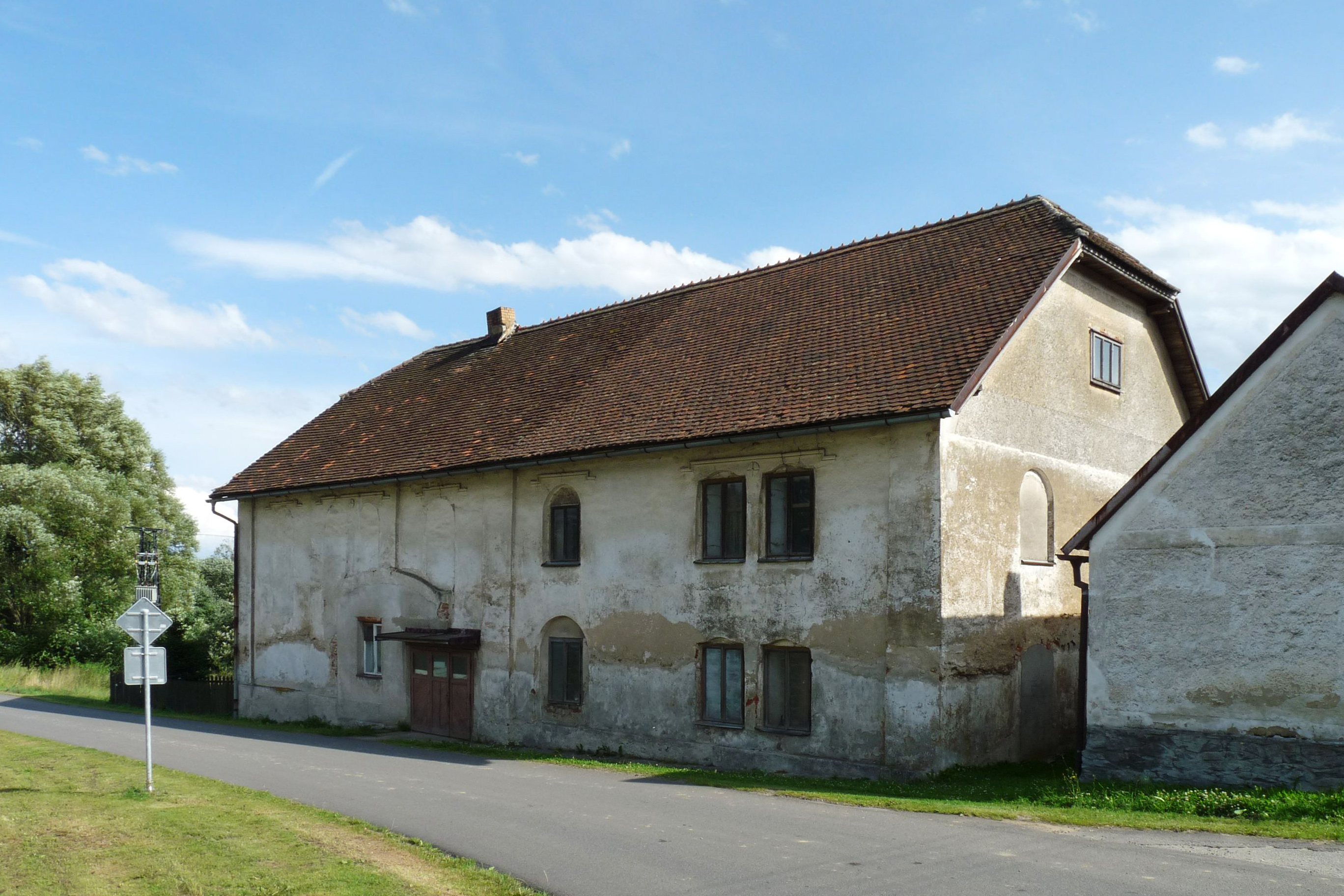 Former synagogue in the village of Babčice, Tábor District, Czech Republic as seen from the northeast.